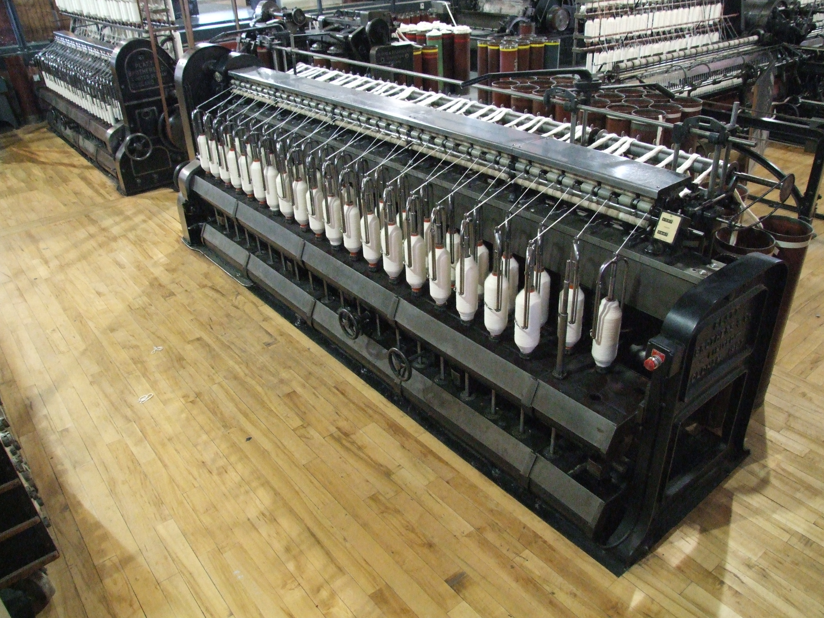 The Museum of Science and Industry (Manchester) contains a collection of textile machines that demonstrate the whole process used in a Cotton mill, and a few key eighteenth century machines. Speed frame